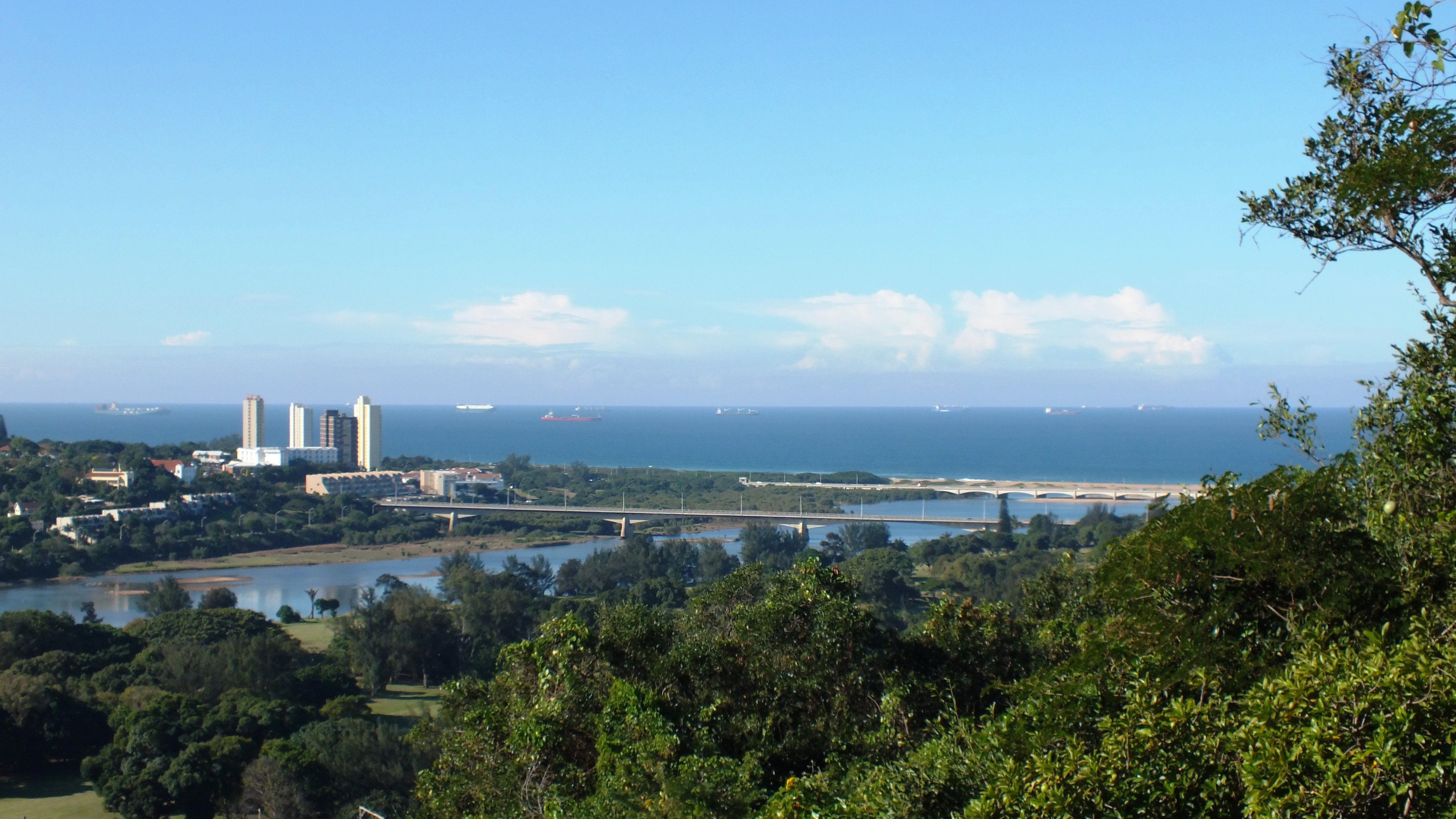 The Umgeni River's Blue Lagoon in Durban, South Africa, as seen from a viewing platform in Burman Bush Nature Reserve.